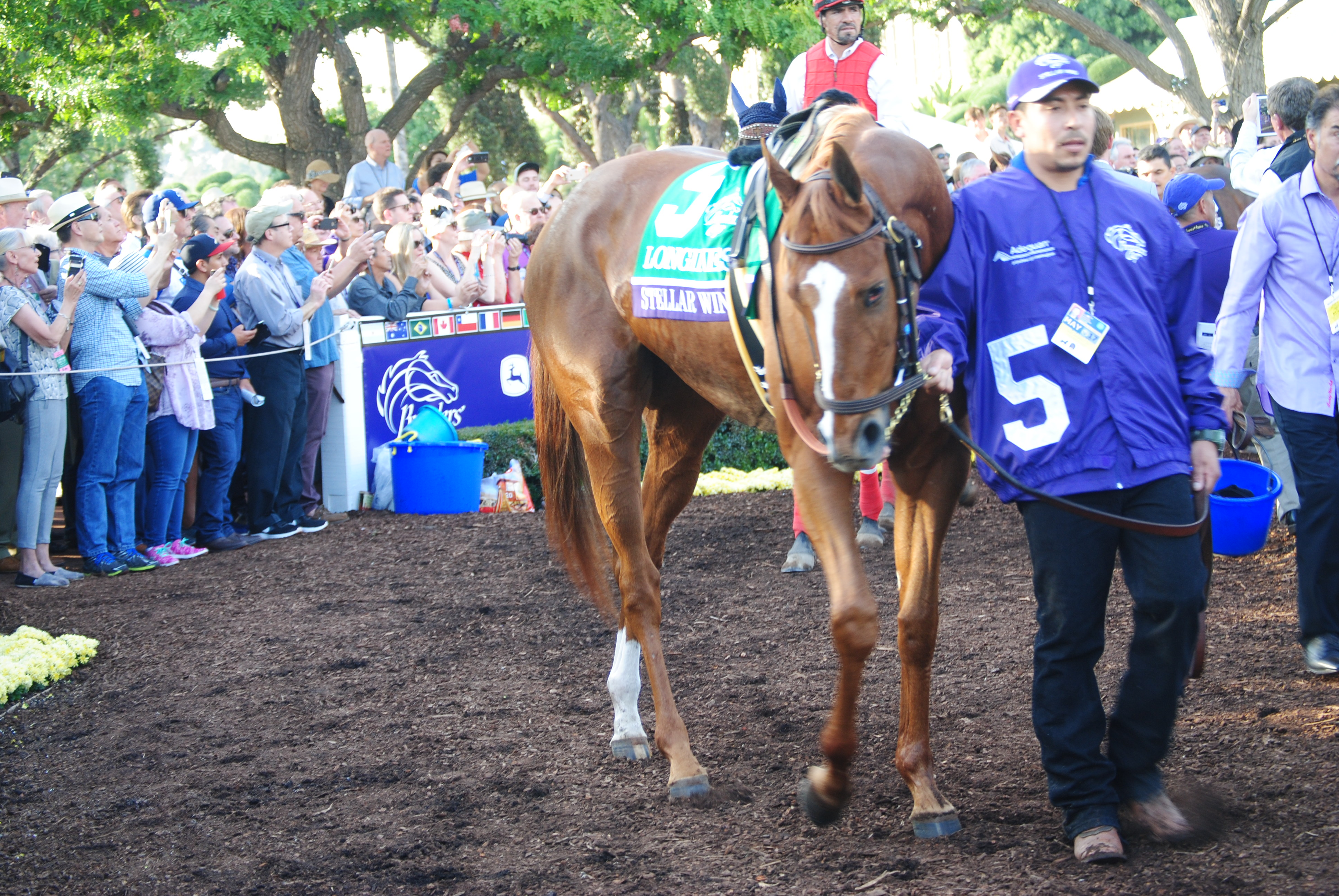 Stellar Wind was the 3rd choice in the 2016 Breeders' Cup Distaff